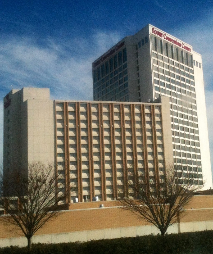 Four Seasons Town Center Sheraton Greensboro Hotel at Four Seasons